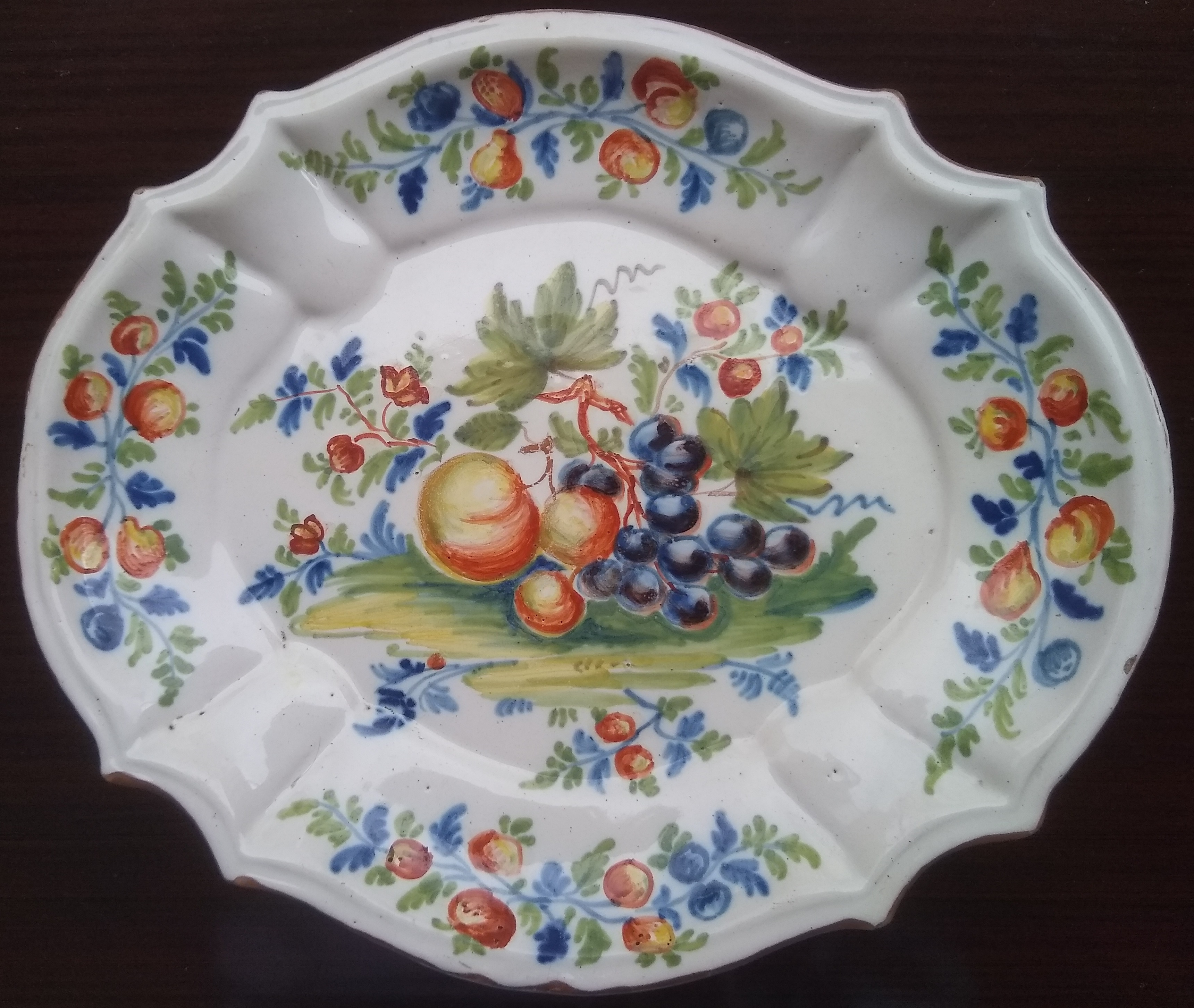 Ceramic plate, maiolica, 32 cm x 27 cm, produced in Lodi, Italy, Antonio Maria Coppellotti factory, about 1740, double firing, with 'AMC' mark in blue at the back. Pictures of the same dish are also published in: Felice Ferrari, La ceramica di Lodi, Azzano San Paolo, Bolis Edizioni, 2003, page 132. A. Novasconi, S.Ferrari, S.Corvi, La ceramica Lodigiana, Edizione della Banca Mutua Popolare Agricola di Lodi, 1964, page 110. Catalogo della mostra: Maioliche di Lodi, Milano e Pavia, Museo Poldi Pezzoli, Milano, number 100. Autori Vari, Lombardia, l'arte, la bellezza, le città, i tesori da riscoprire, Edizioni CELIP, Milano, 2001, page 304. Private collection